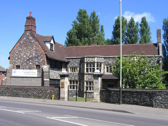 Dolphin Inn, Norwich. Currently under conversion to a Chiropractic Centre, it was until recently the Dolphin Inn. The plaque outside states : "Formerly the palace of Bishop Joseph Hall 1574 - 1656 Bishop of Norwich from 1644 until 1647 when he was forced to retire when his cathedral had been pillaged and desecrated" It was however originally the residence of Richard Browne, a Sheriff of Norwich whose initials and arms can be found over the doorway with the date 1587.